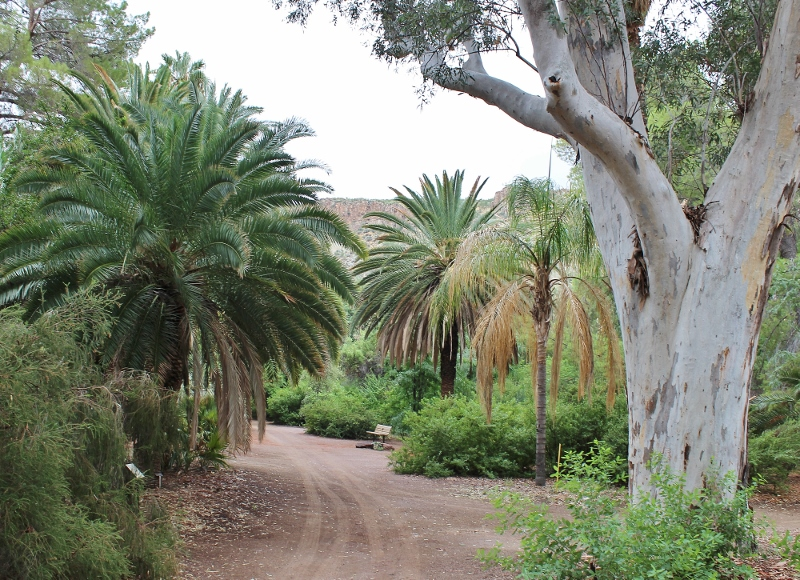 The hiking trail as it passes through the palm and eucalyptus groves at the Boyce Thompson Arboretum.